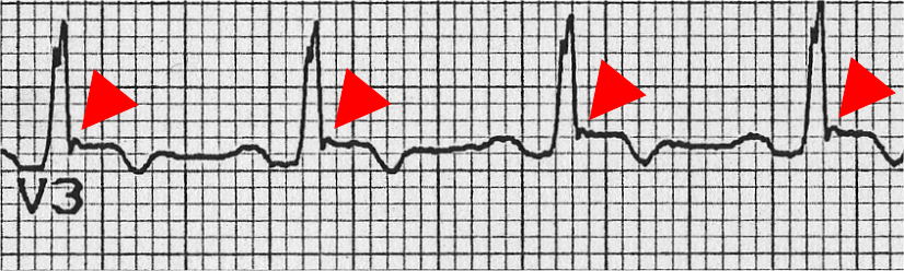 The epsion wave, seen in arrhythmogenic right ventricular dysplasia.